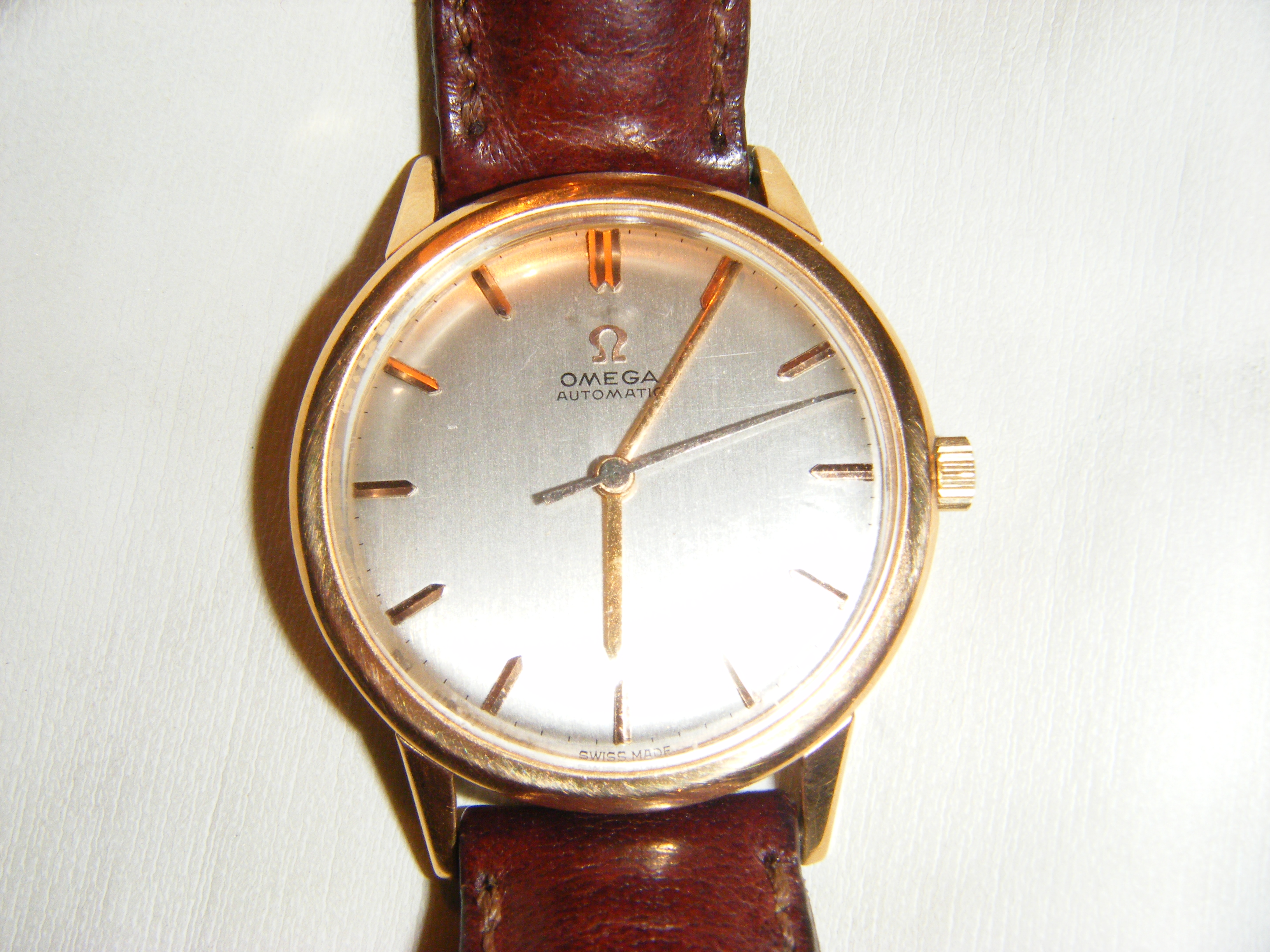 watch Omega Seamaster